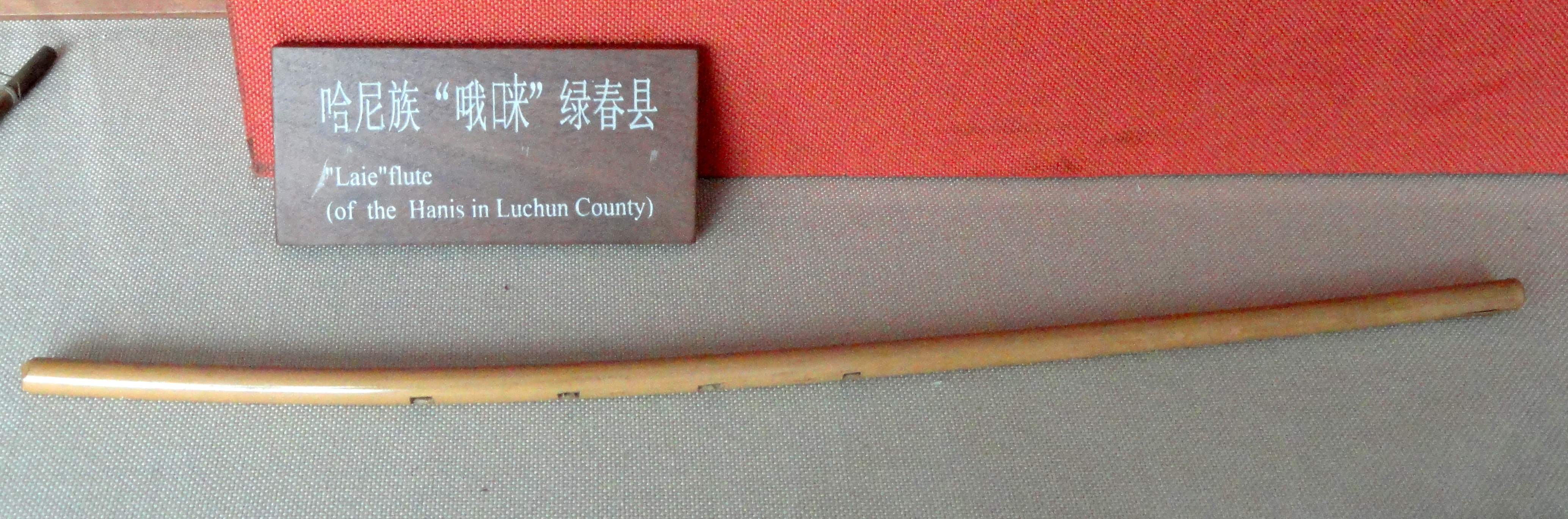 Hani "laie" flute. Musical instruments in the Yunnan Nationalities Museum, Kunming, Yunnan, China.